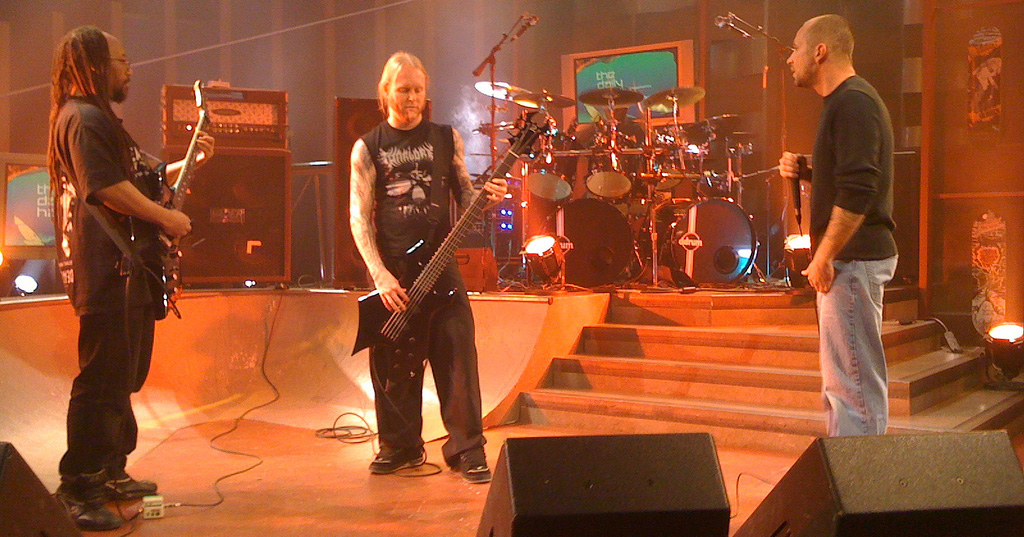 Suffocation: from left: Terrance Hobbs, Derek Boyer, Frank Mullen